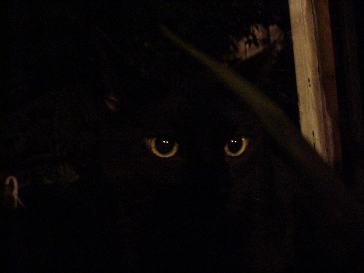 Syd the cat in the dark demonstrating his glowing eyes